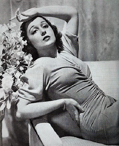 Frances Drake